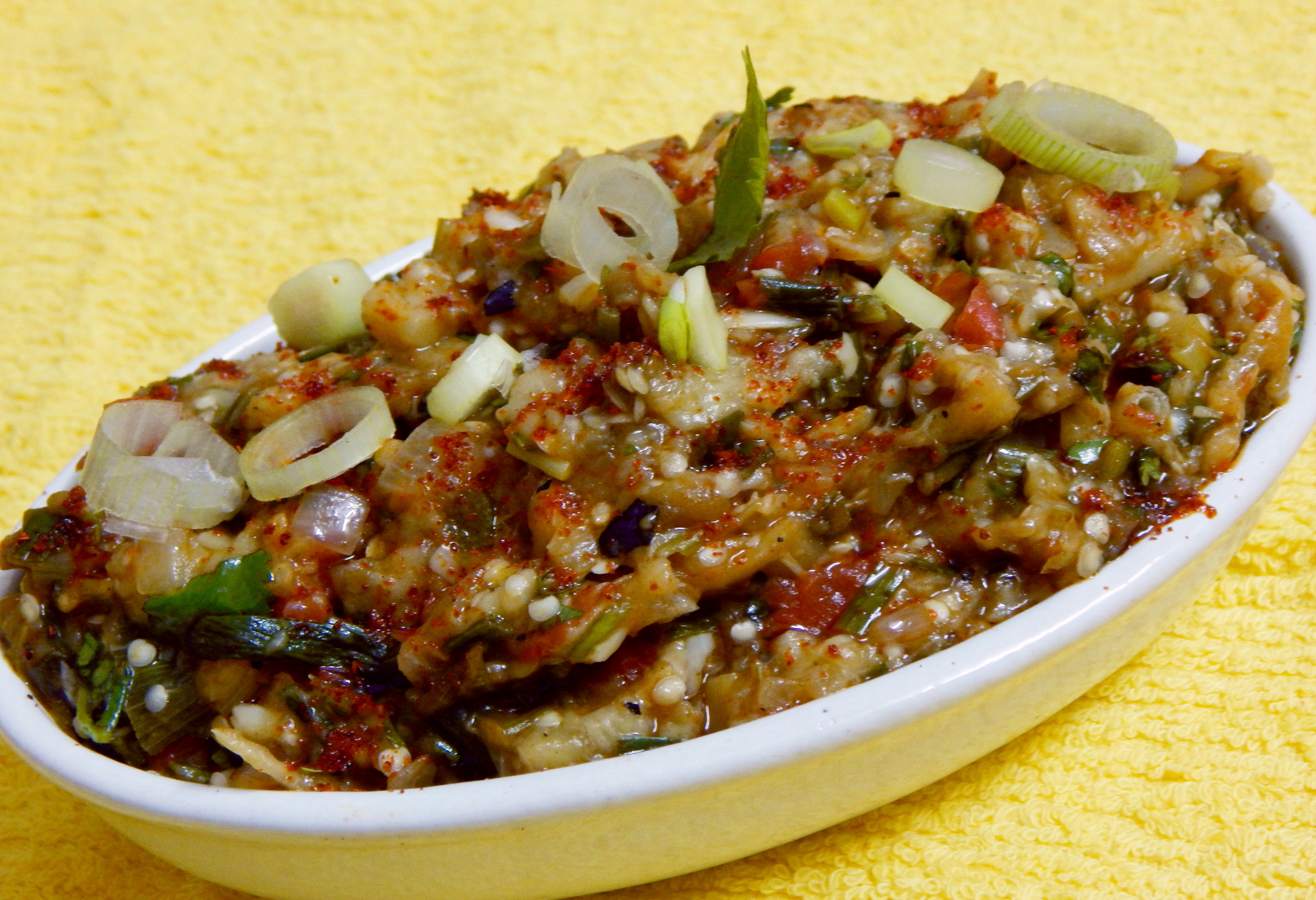 Baingan Ka Bharta- An Indian Sabji.